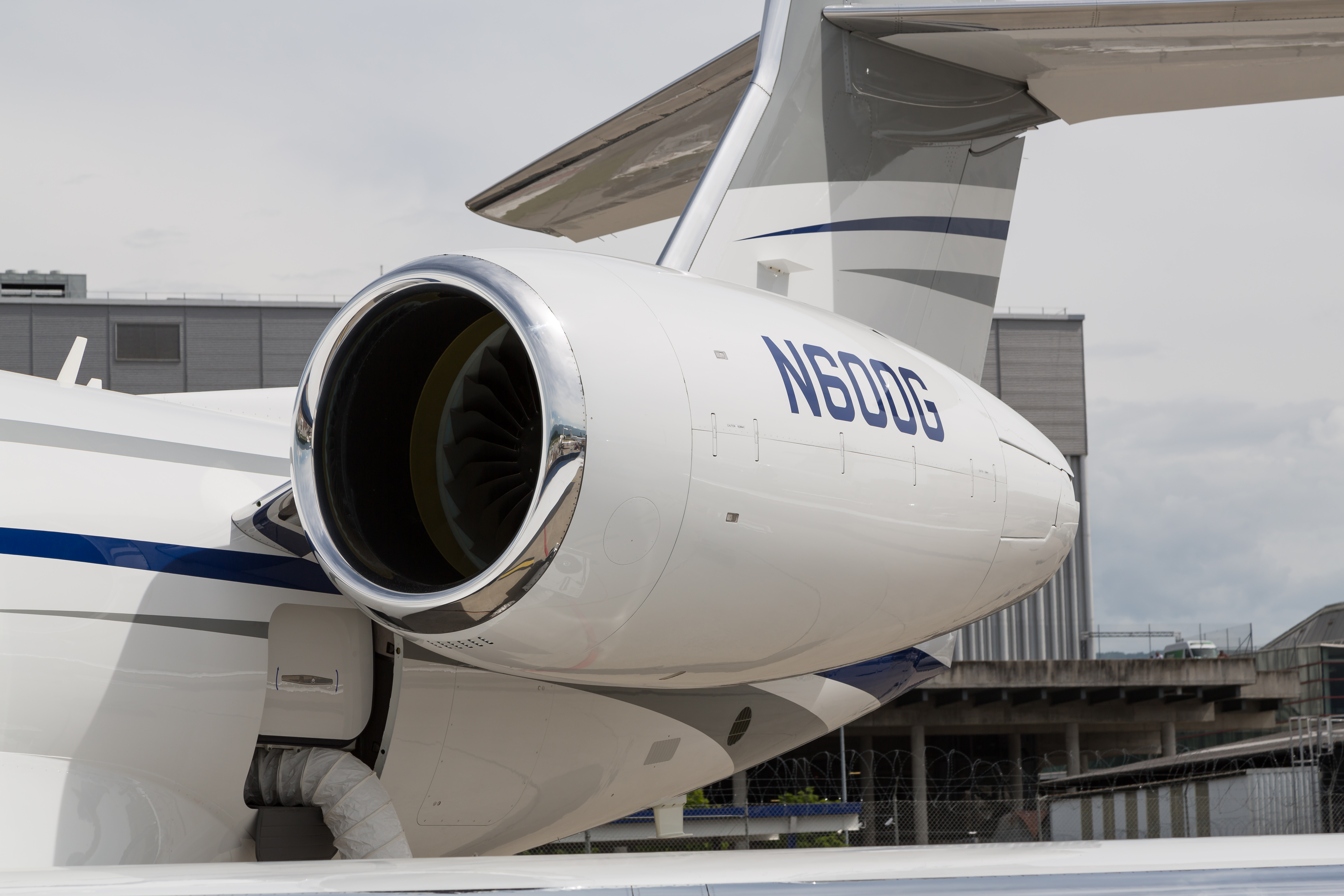 Pratt & Whitney Canada PW800 engine of a Gulfstream G600, EBACE 2018